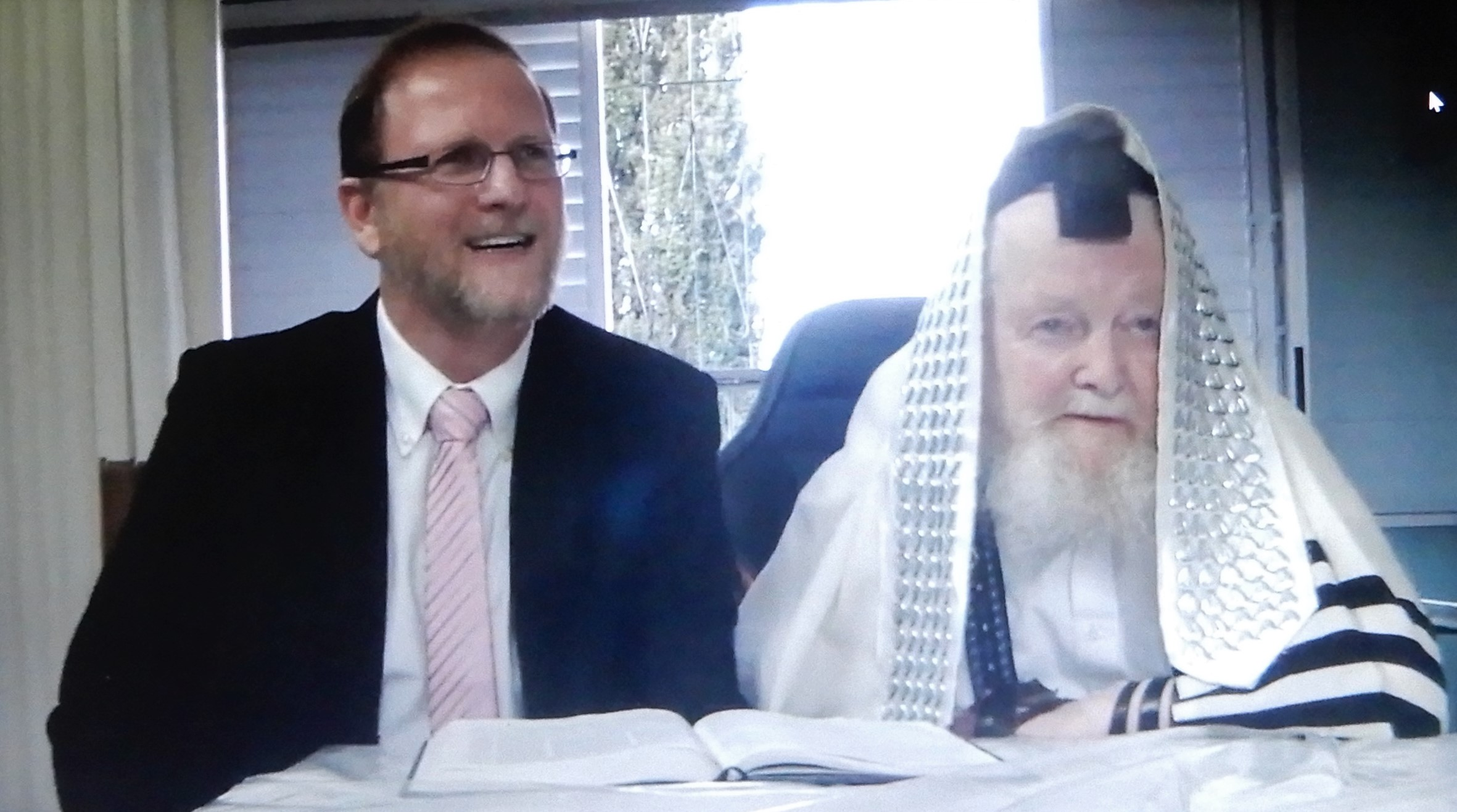 Rabbi Chayim Naftali Weisblum with his son Rabbi Moshe Pinchas Weisblum 2015